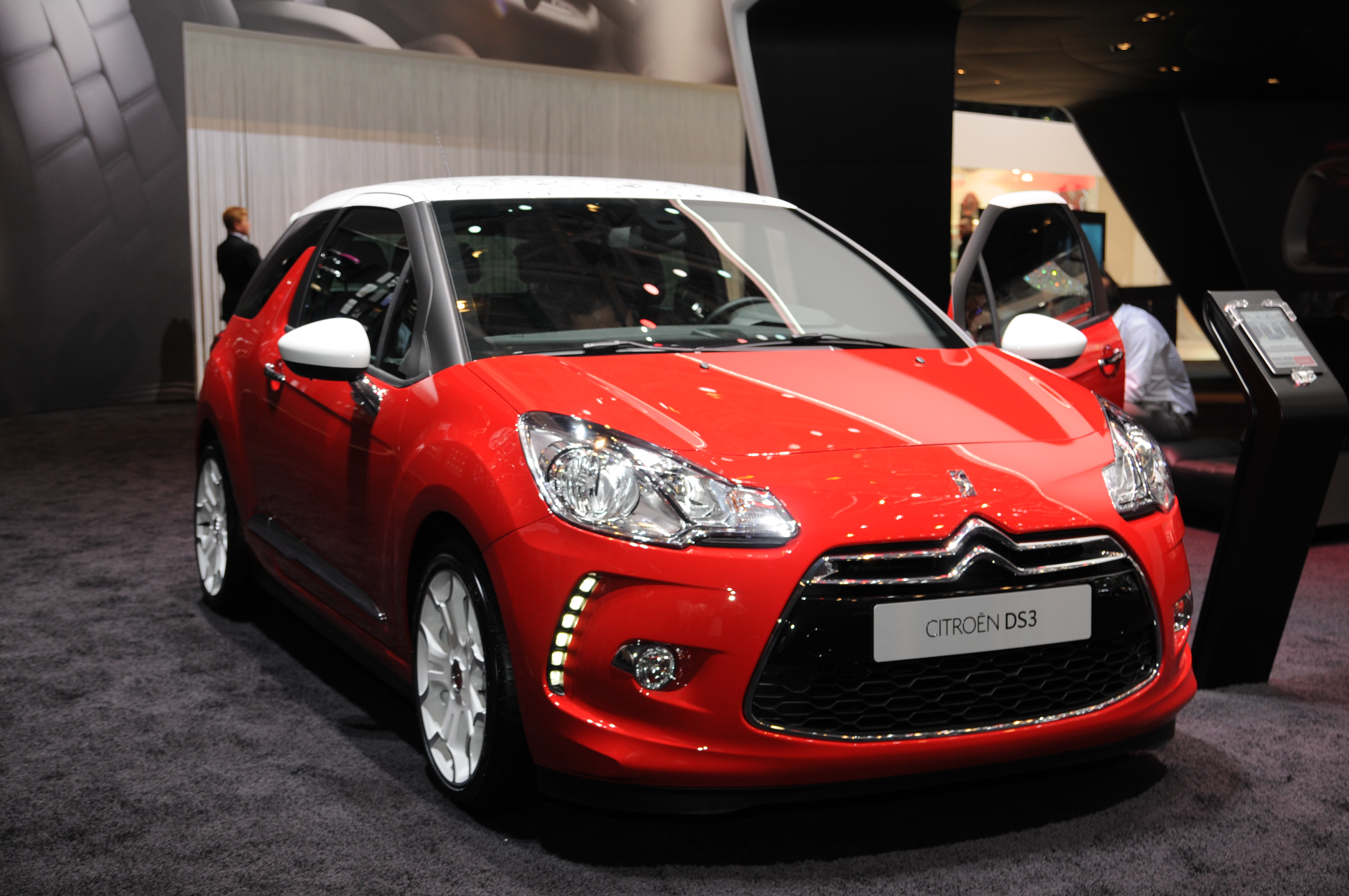 Geneva Motor Show 2013 (photos taken on the first press day)